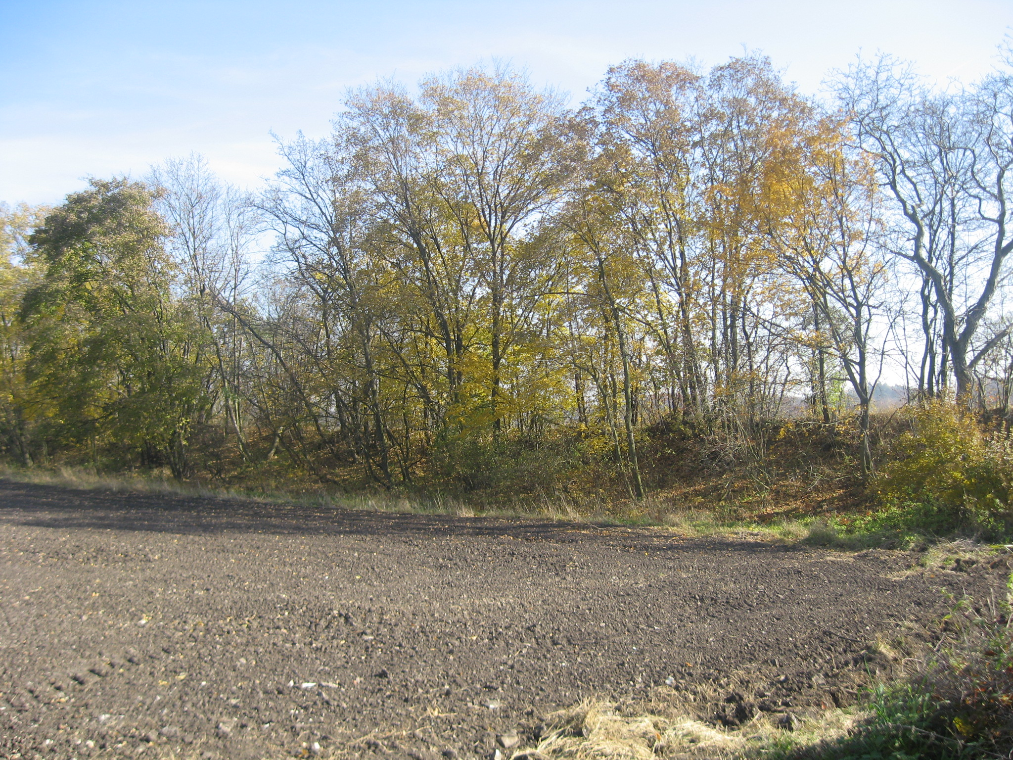 The bulwark in Drevic, Czech Republic